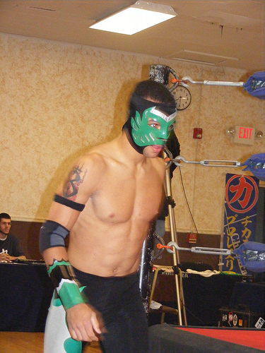 Professional wrestler Helios (Ricochet) in Chikara